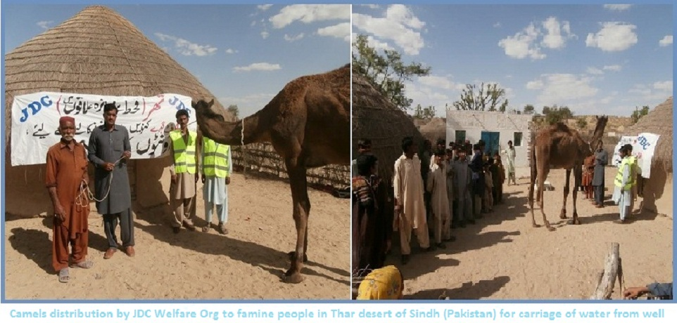 Camels distribution by JDC Welfare Org to famine people in Thar desert of Sind Pakistan